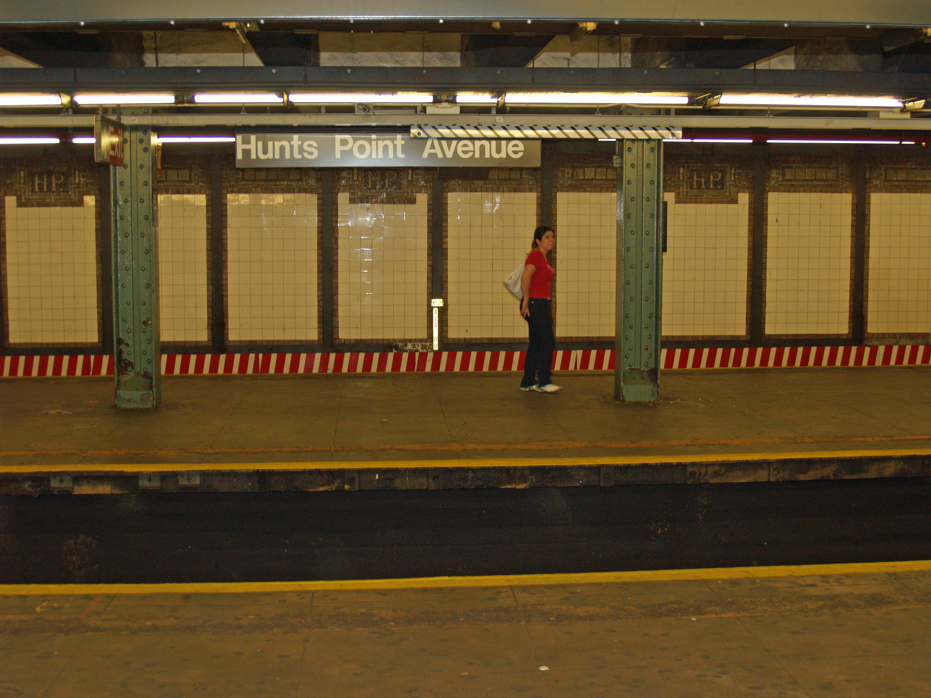 Hunts Point Avenue (IRT Pelham Line) by David Shankbone